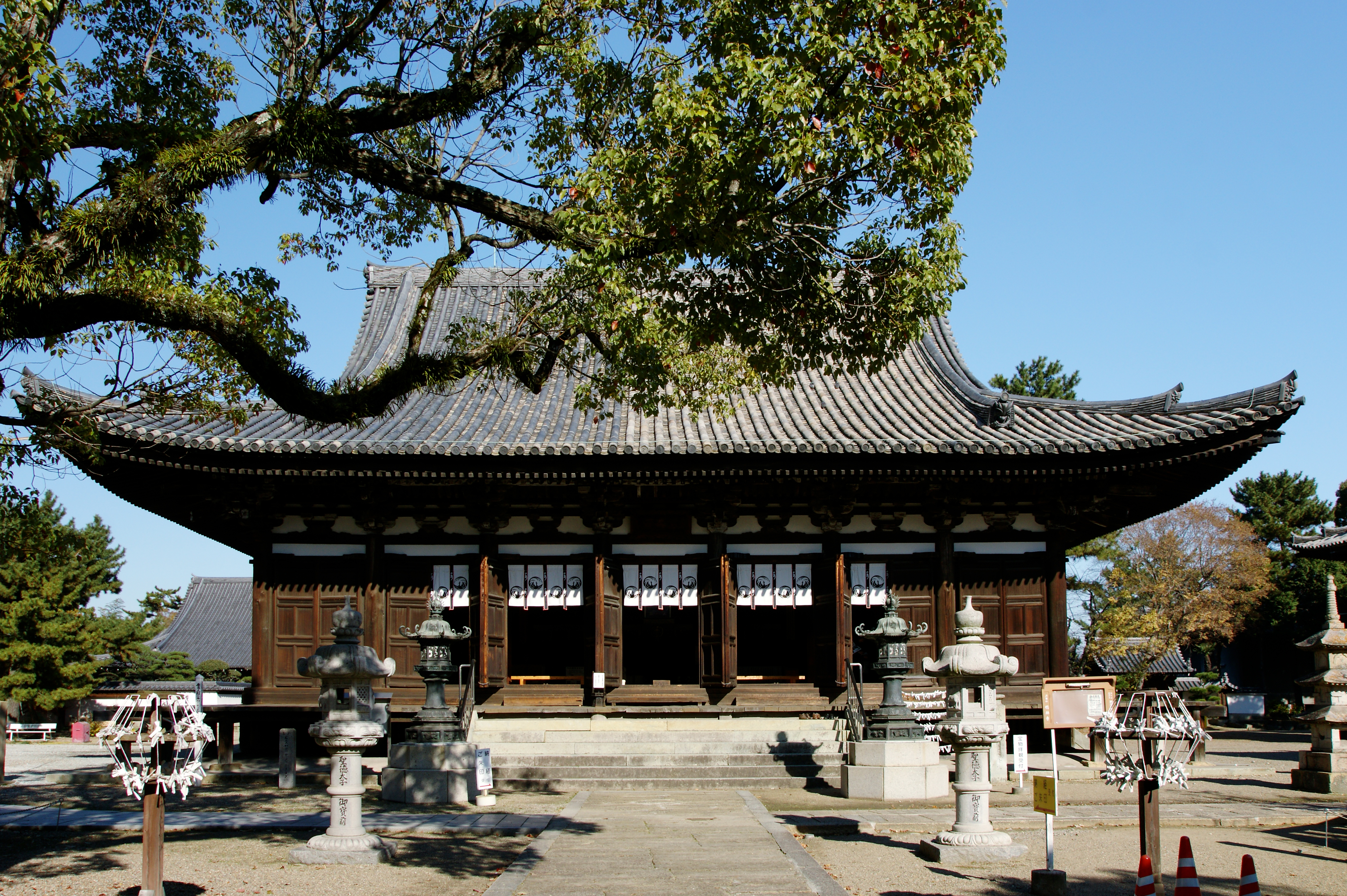 Kakurinji Buddhist temple in Kakogawa, Hyogo prefecture, Japan Opening in 589. This photograph is the Hondo (Japan's National Treasure). It was rebuilt in 1397.